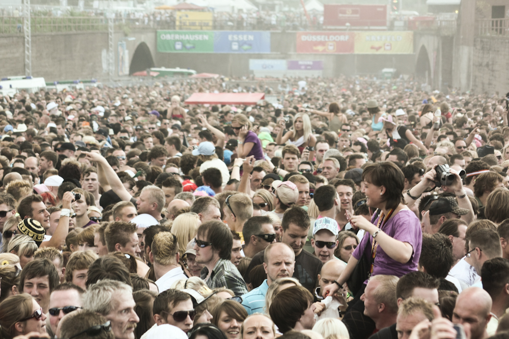 Loveparade 2010